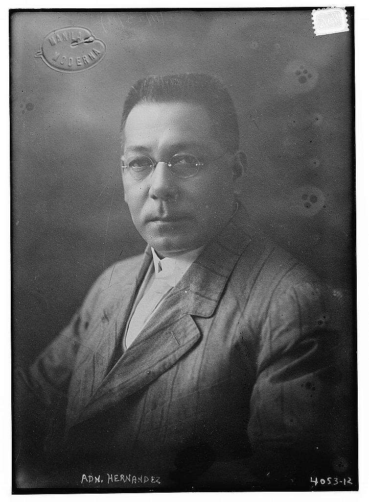 Adriano Dayot Hernandez in 1916